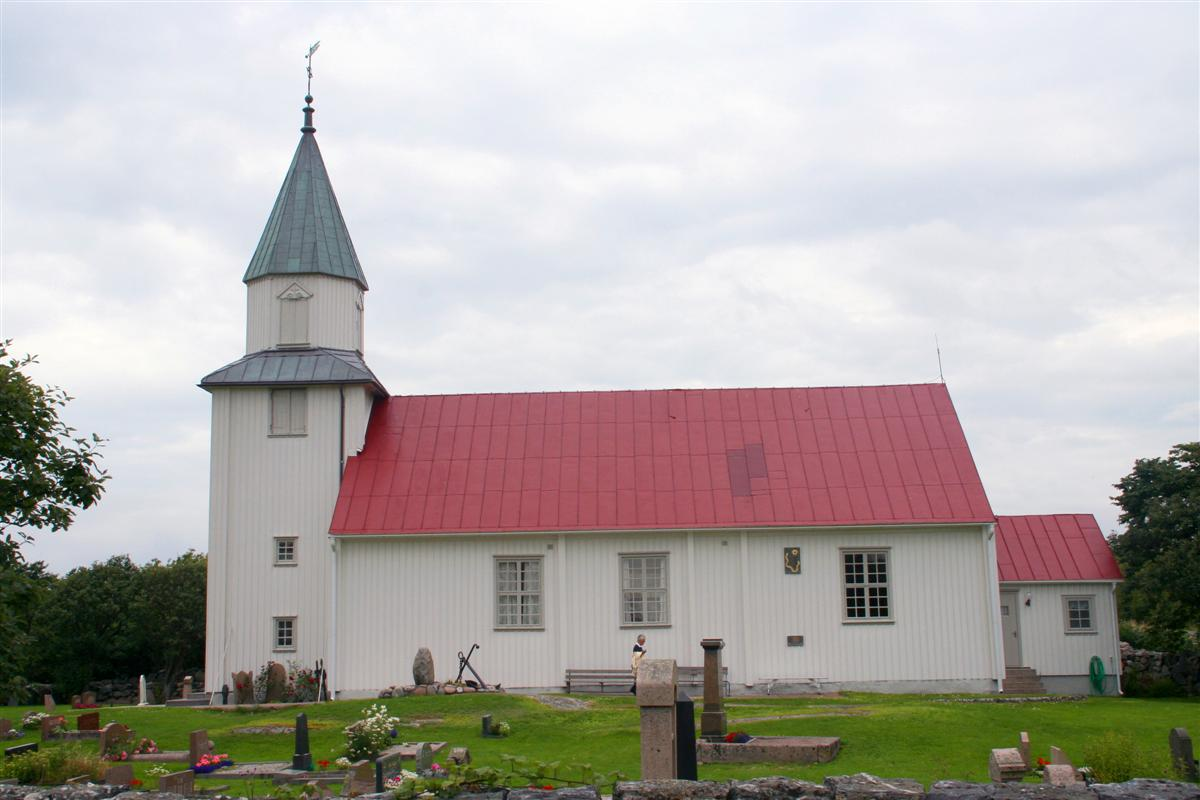 Käringön Church, exterior